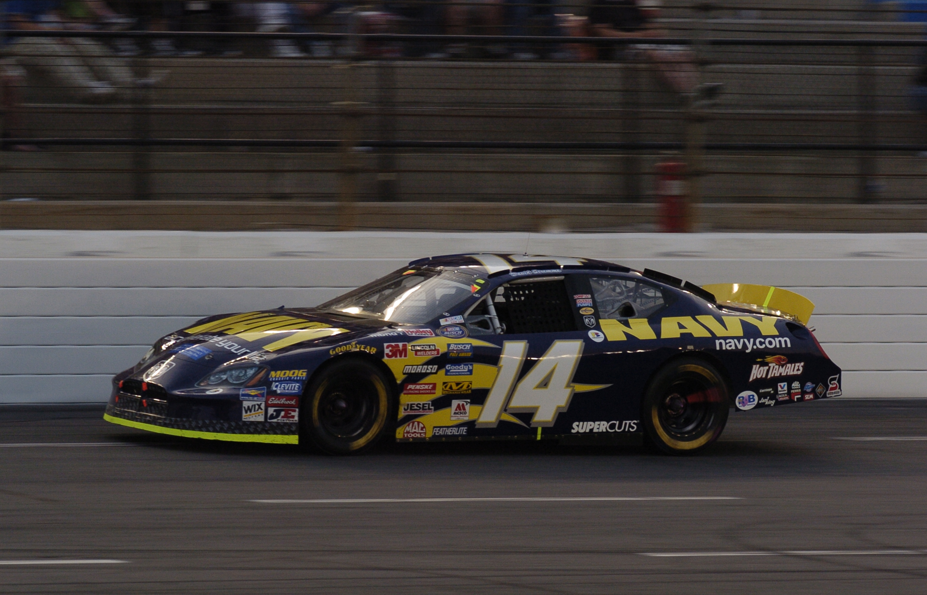 Concord, N.C. (May 28, 2005) – NASCAR's 2003 Busch Series Rookie of the Year, David Stremme drives the No. 14 Navy “Accelerate Your Life” Dodge Charger around Lowe's Motor Speedway in Concord, N.C. Stremme finished in the top ten in the CARQUEST Auto Parts 300 Busch Series race. U.S. Navy photo by Chief Photographer's Mate Johnny Bivera (RELEASED)